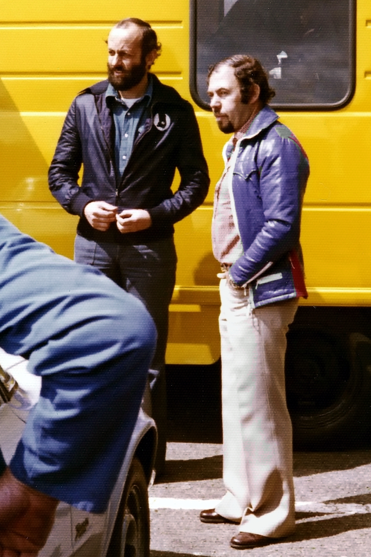 French racer Henri Pescarolo (left) and German racer and racing team owner Willi Kauhsen pictured at the Circuit Spa-Francorchamps in Belgium in 1975.